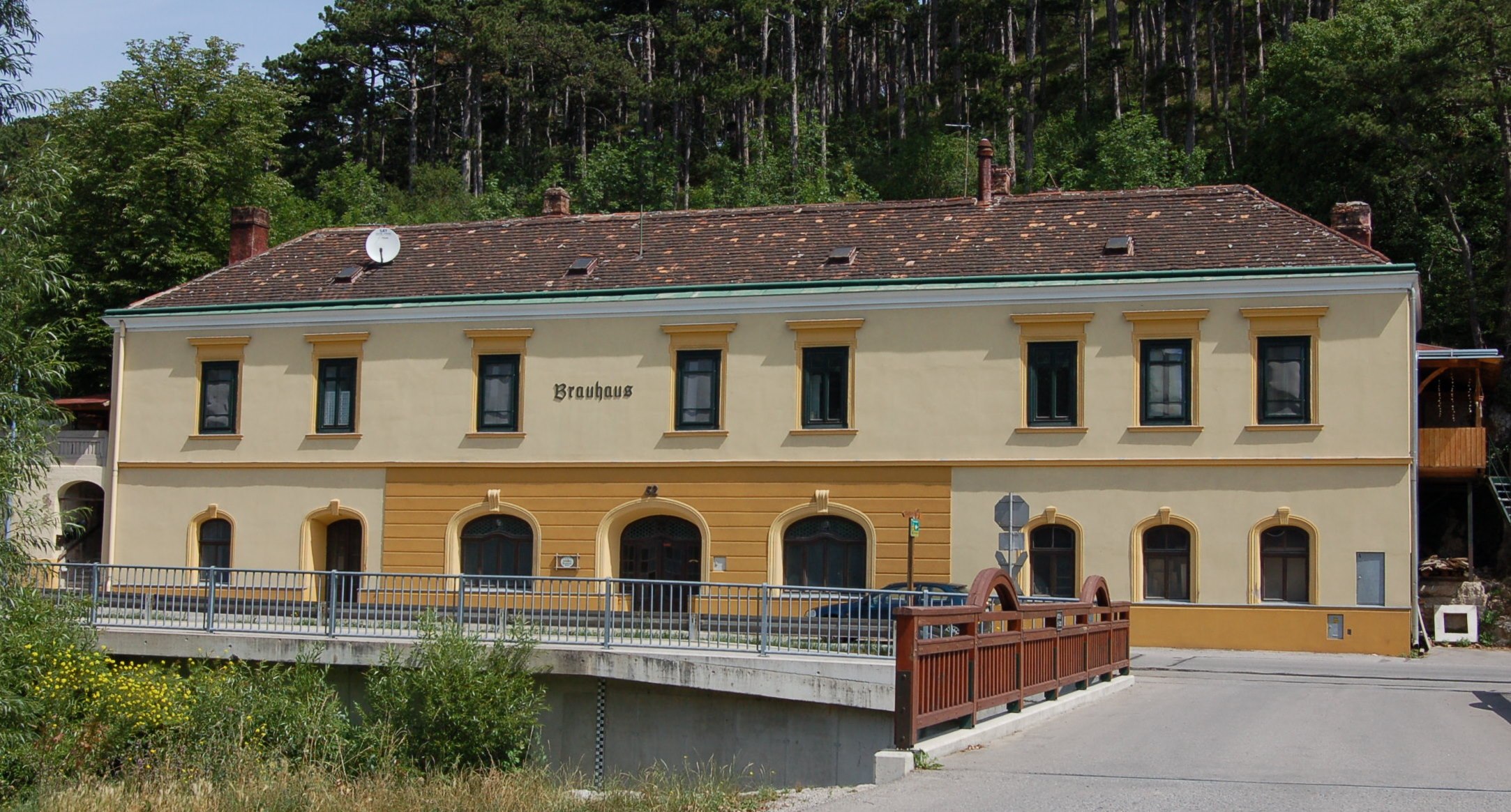 Old brewery building in Markt Piesting, Lower Austria